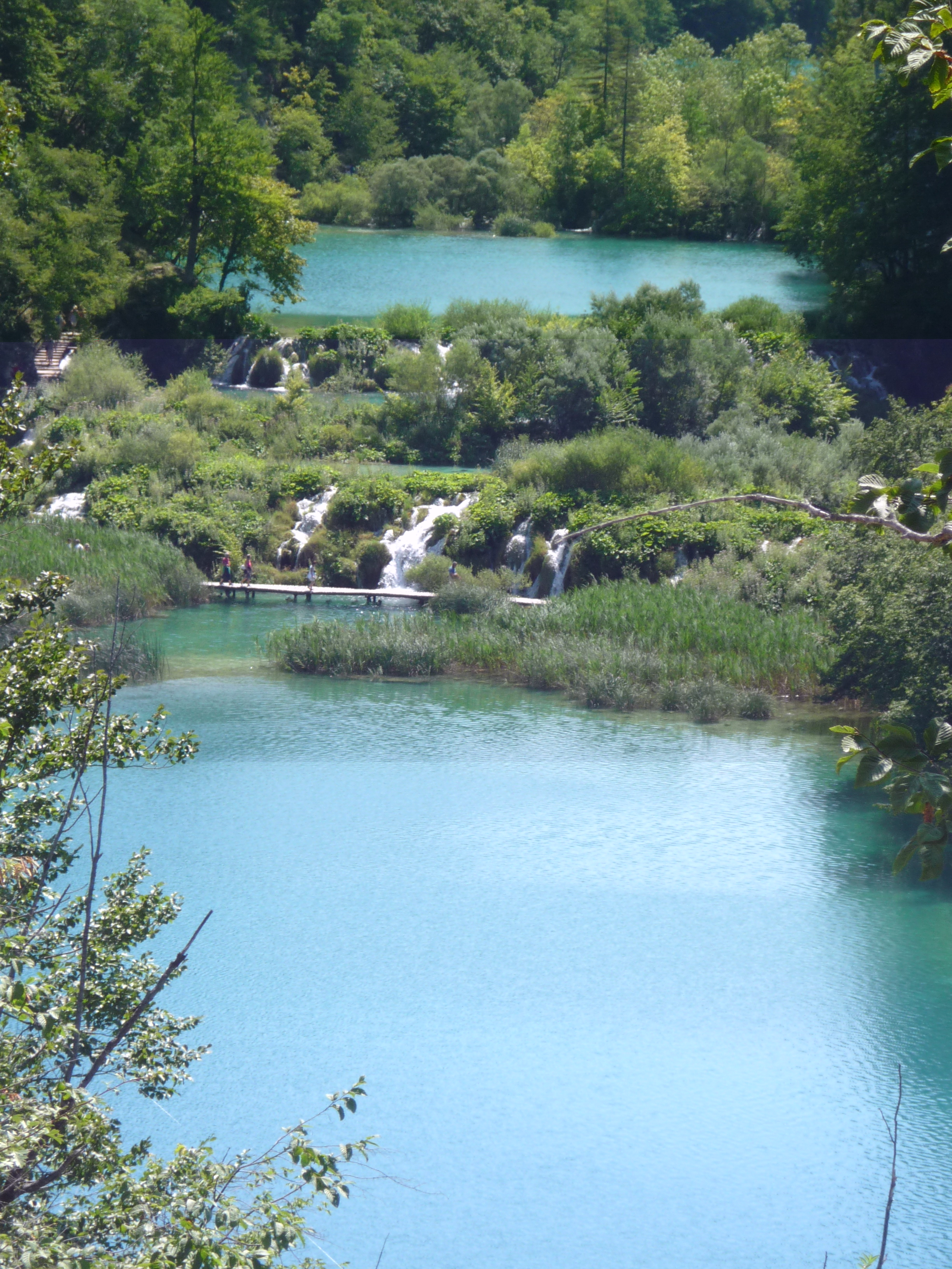 Lakes Galovac and Okrugljak.